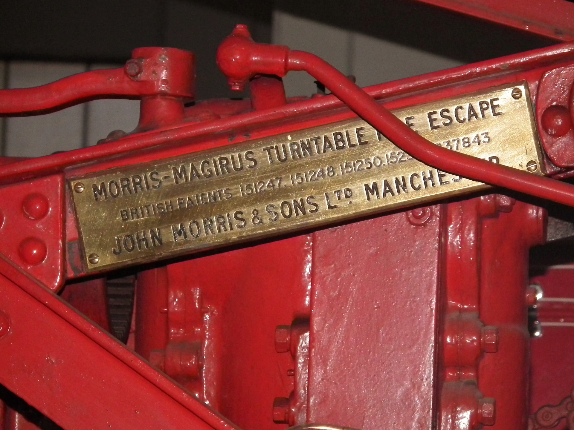 1929 Dennis Morris-Magirus turntable ladder. Taken at the Museum of Fire, Penrith, NSW.